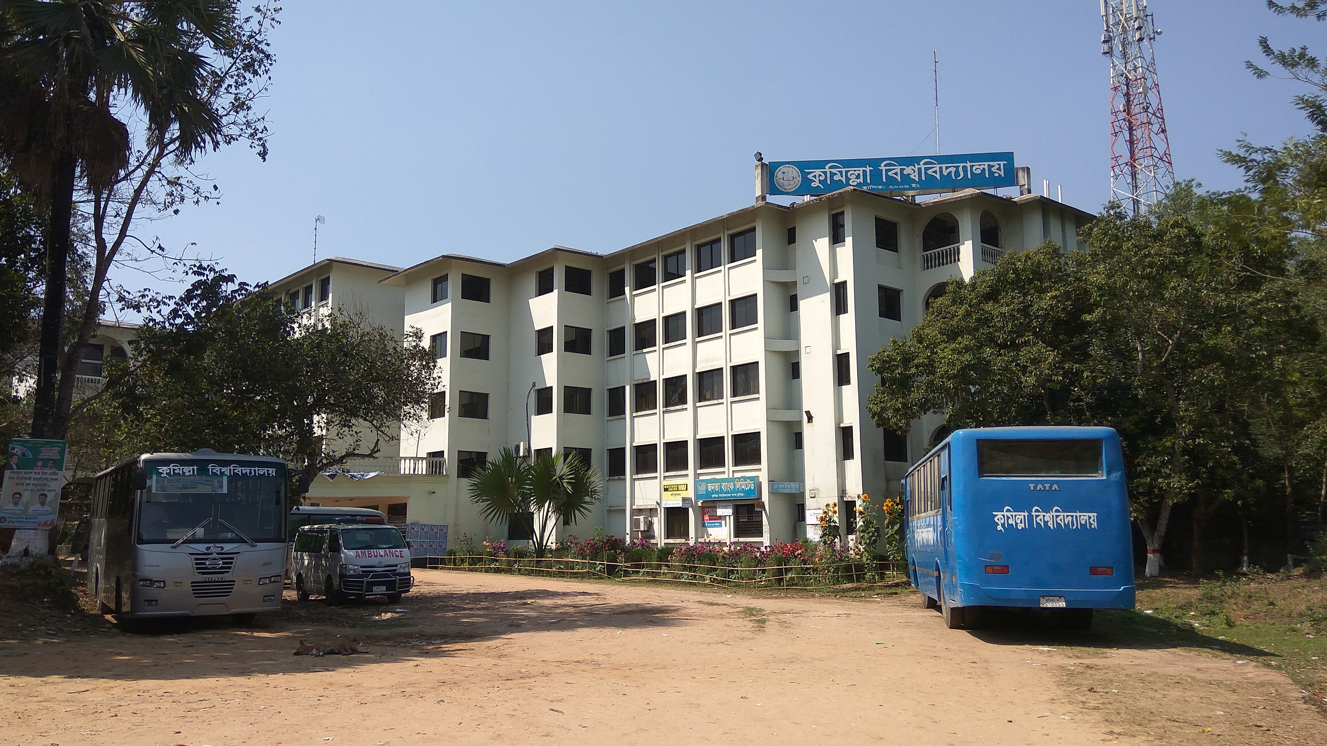 Administrative building, Comilla University